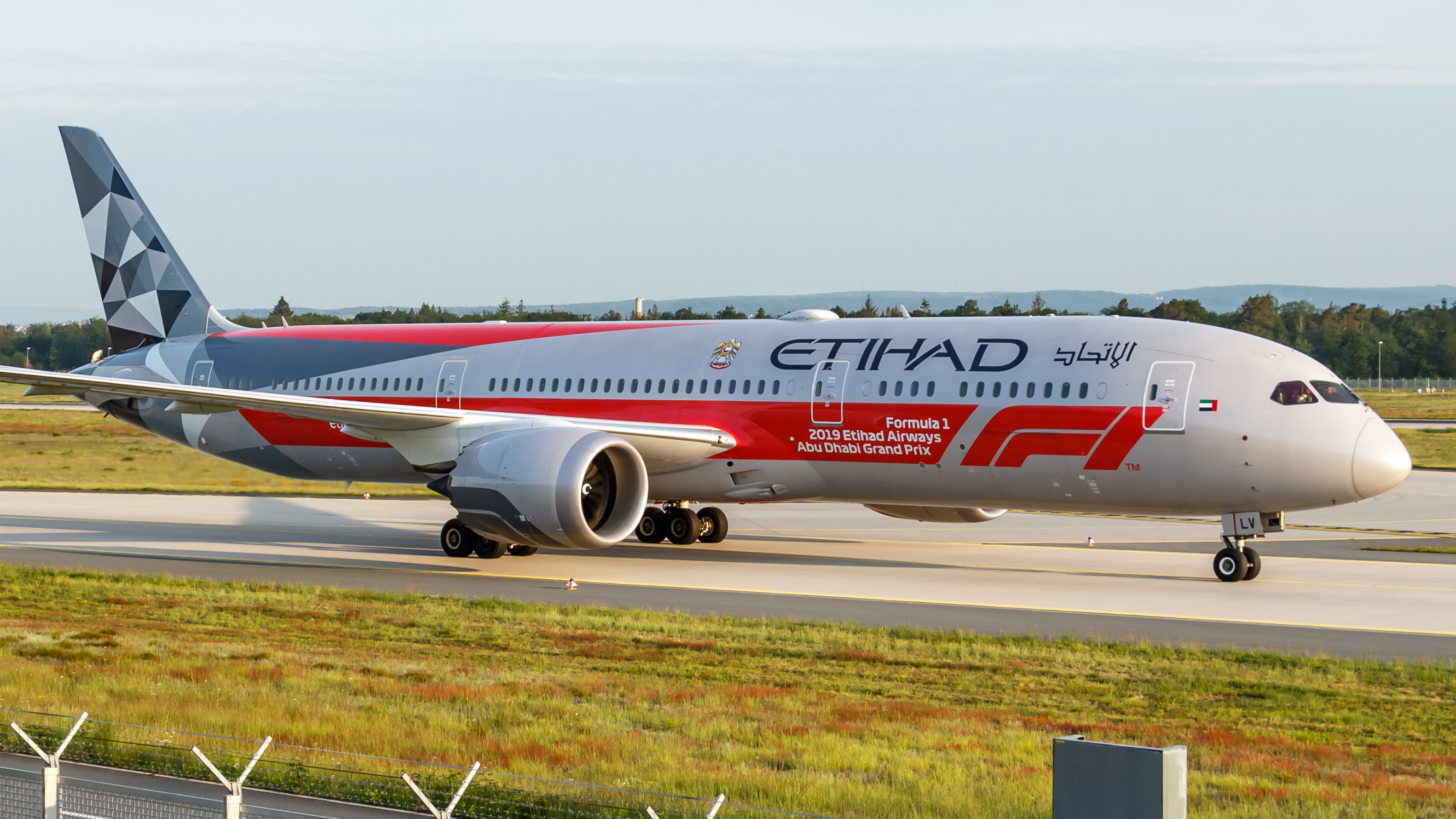 A6-BLV Etihad Airways B789 Formula 1 Livery FRA